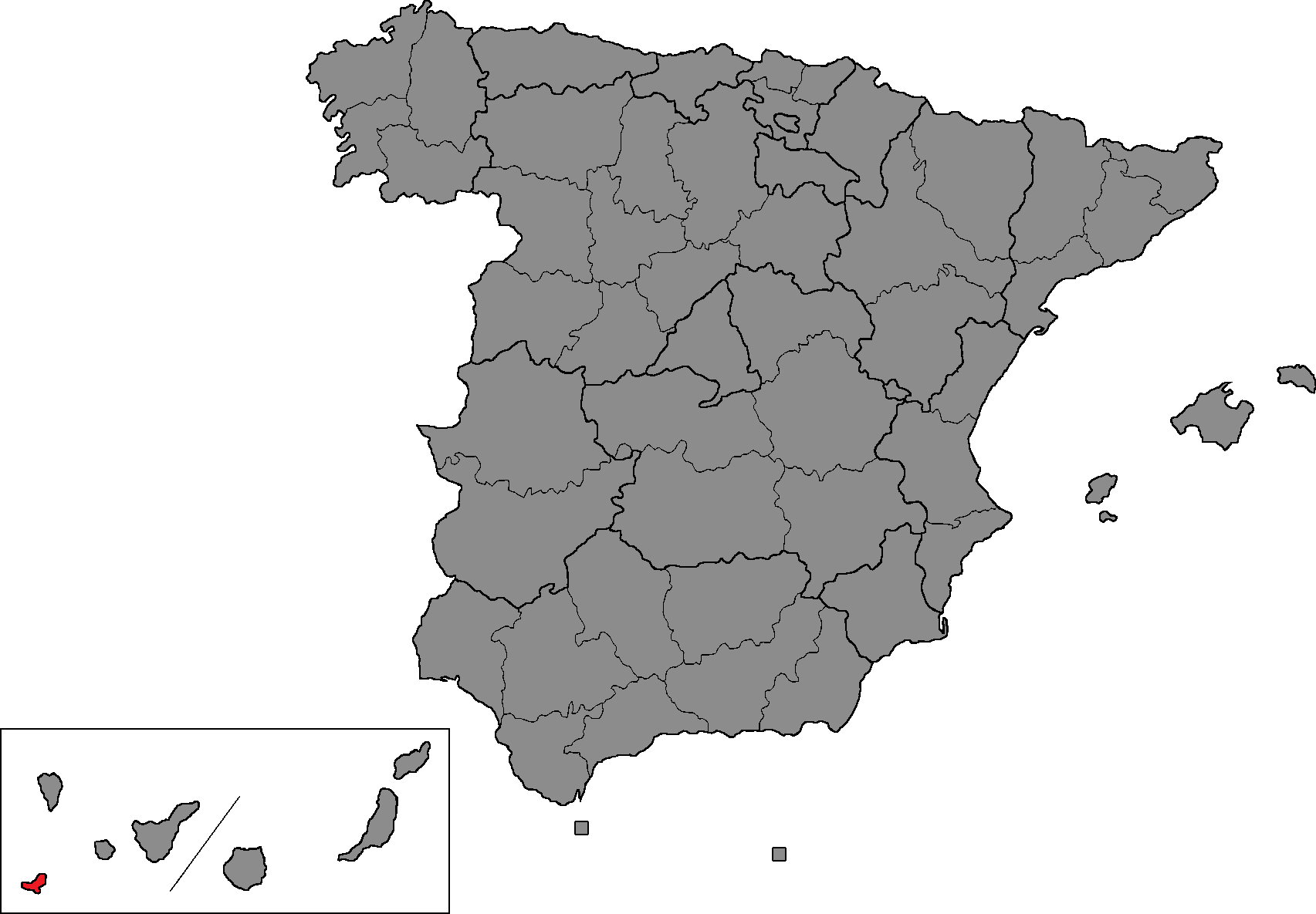 Spanish Senate district of El Hierro.